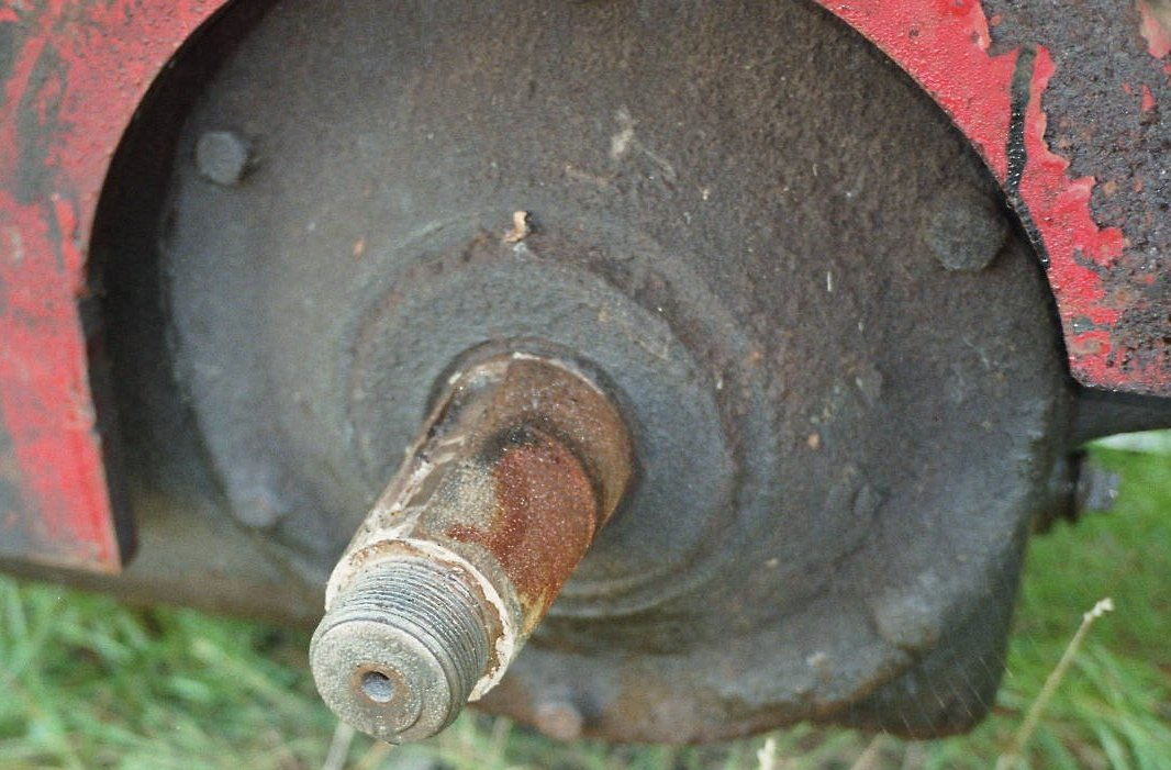 A crank pin at the end of a shaft with a keyway for a parallel key and an external thread at the end of the shaft.